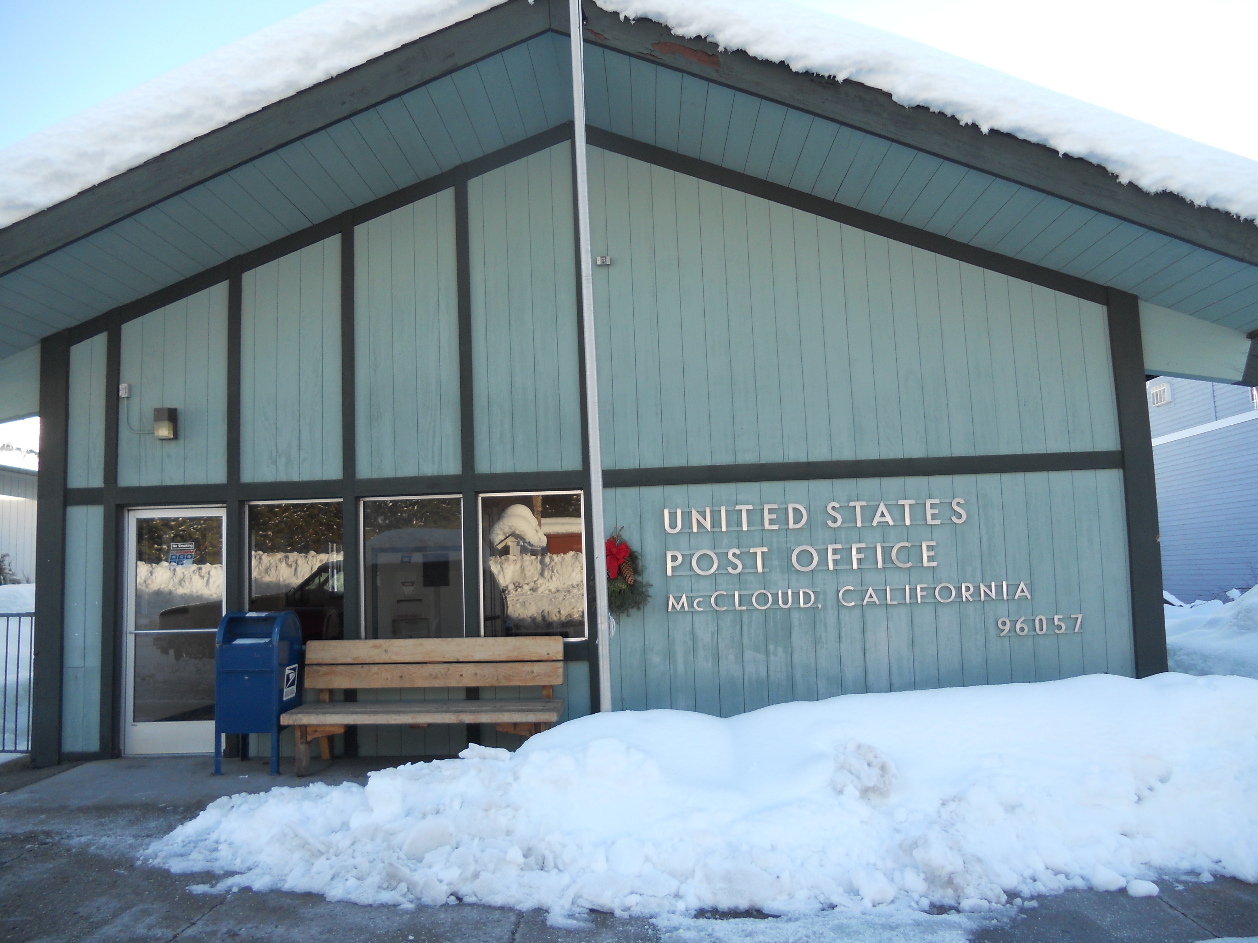 The U.S. post office at McCloud, California, a Census-designated place (CDP) in Siskiyou County, in the northern part of the state